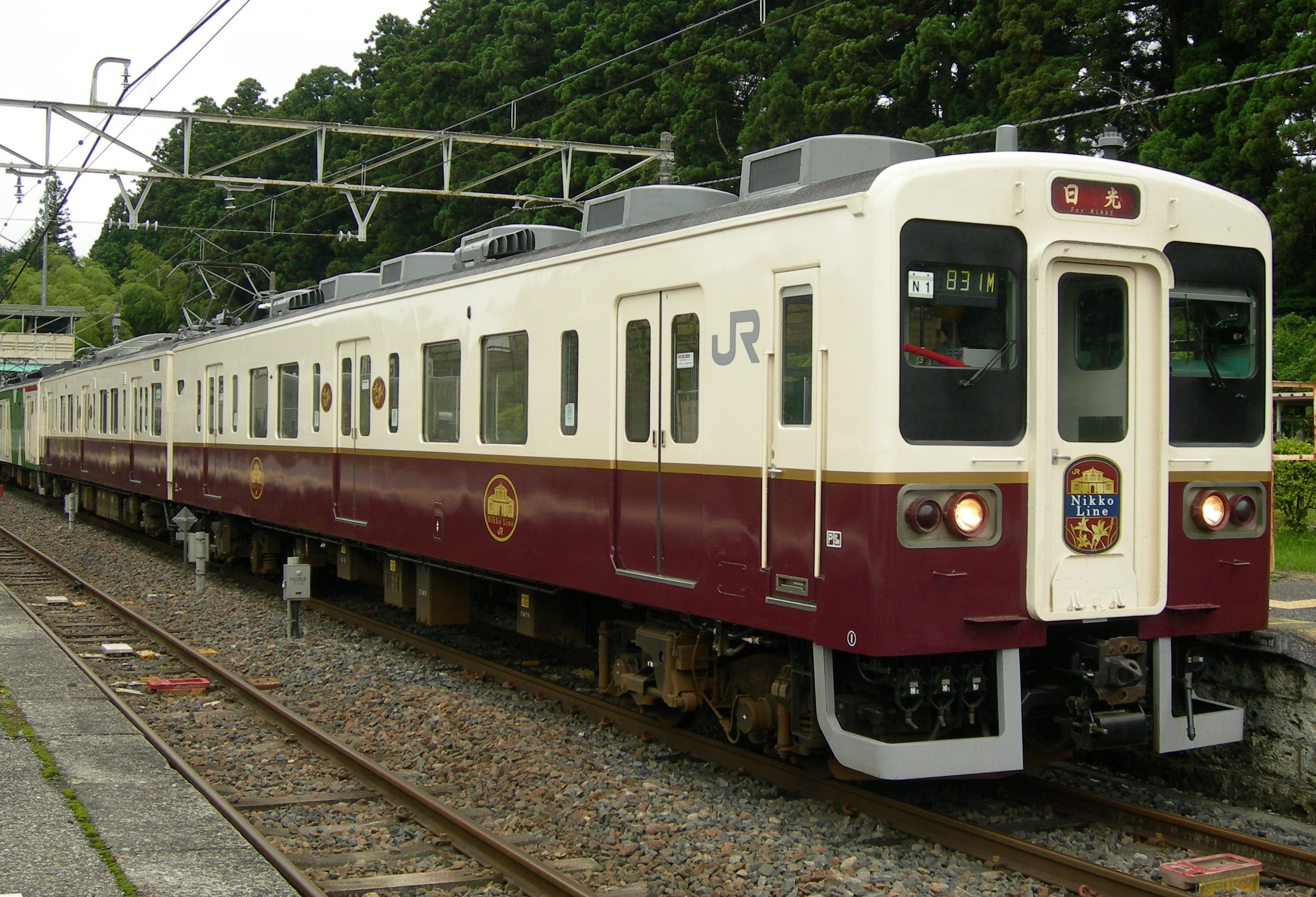 JR East 107-0 series EMU set N1 in revised Nikko Line livery at Fubasami Station